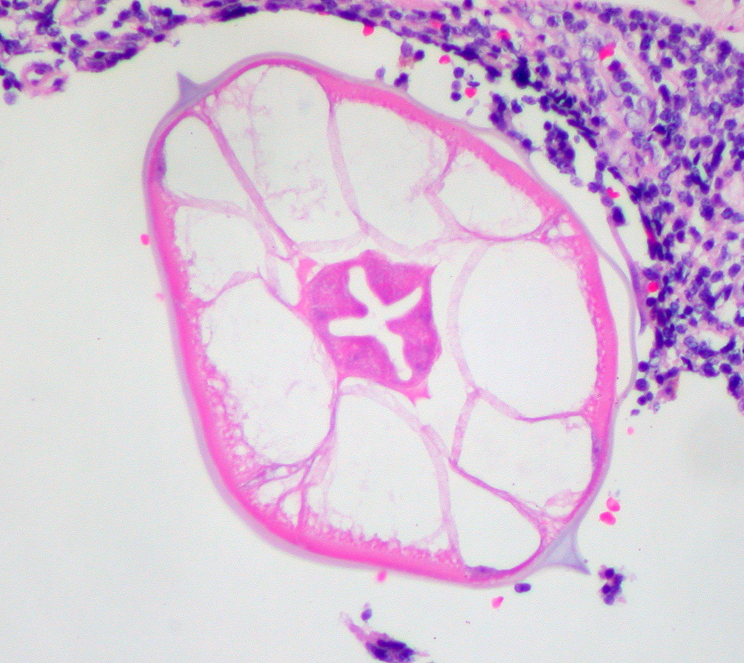 Pinworms in the Appendix Cross sections of these pinworms (Enterobius vermicularis) were an incidental finding in this middle-aged patient who underwent a hysterectomy and staging procedure for adenocarcinoma of the endometrium. The lateral "spines" (actually longitudinal blade-like ridges running the length of the worm) are identifying features of the pinworm